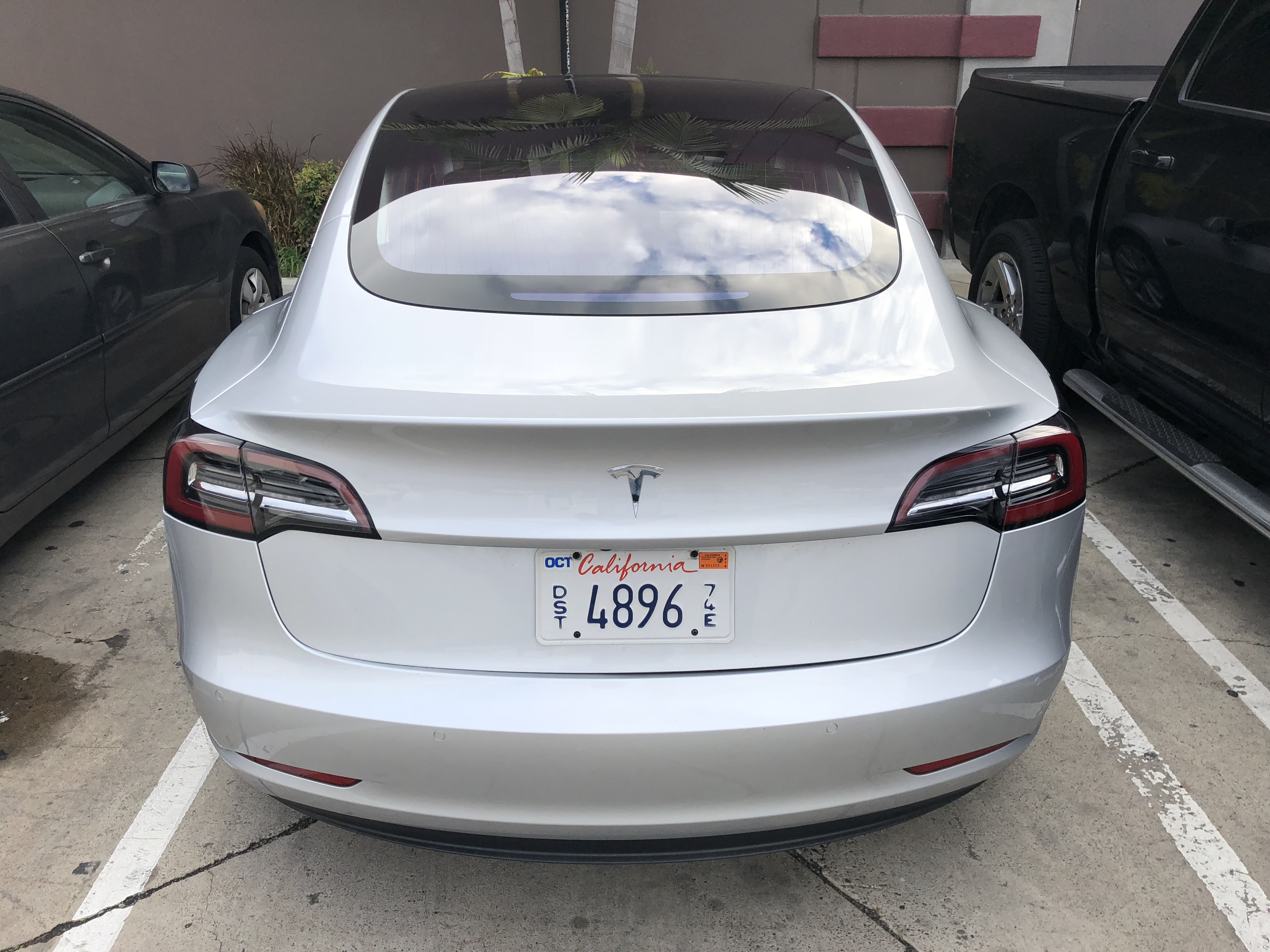 Silver Tesla Model 3 in Stanton, California (2018).